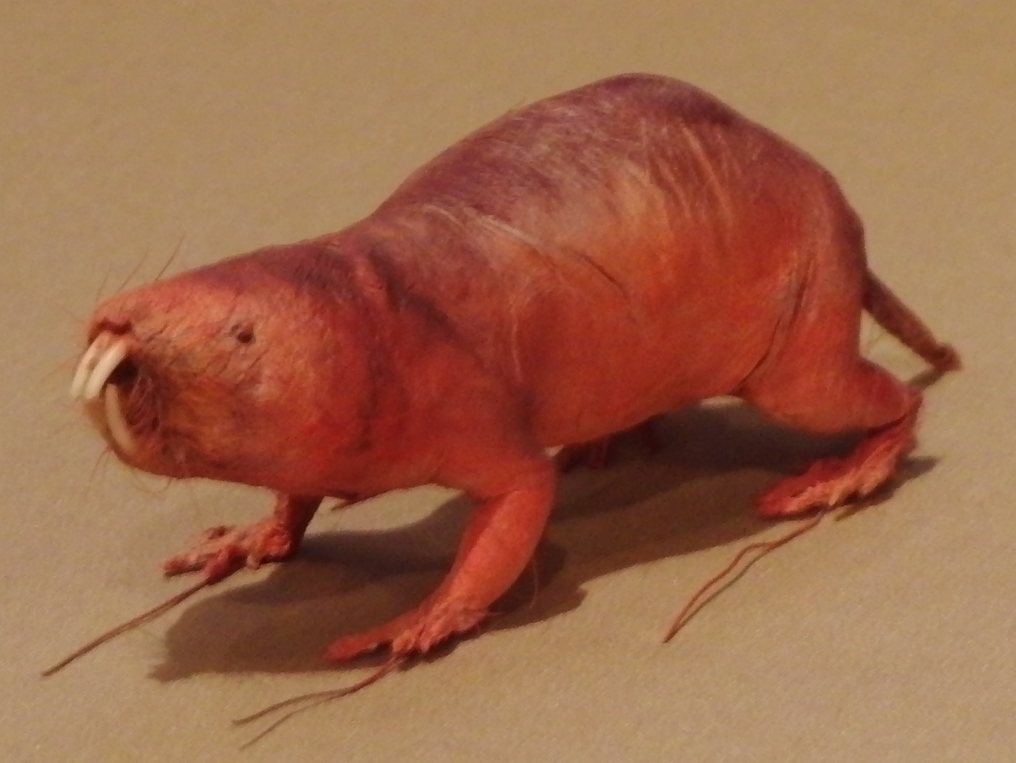 Naked mole rat (Heterocephalus glaber), stuffed specimen. Exhibit in the National Museum of Nature and Science, Tokyo, Japan. Exhibited in Planned Exhibition "Kahaku Specimen Zoo".